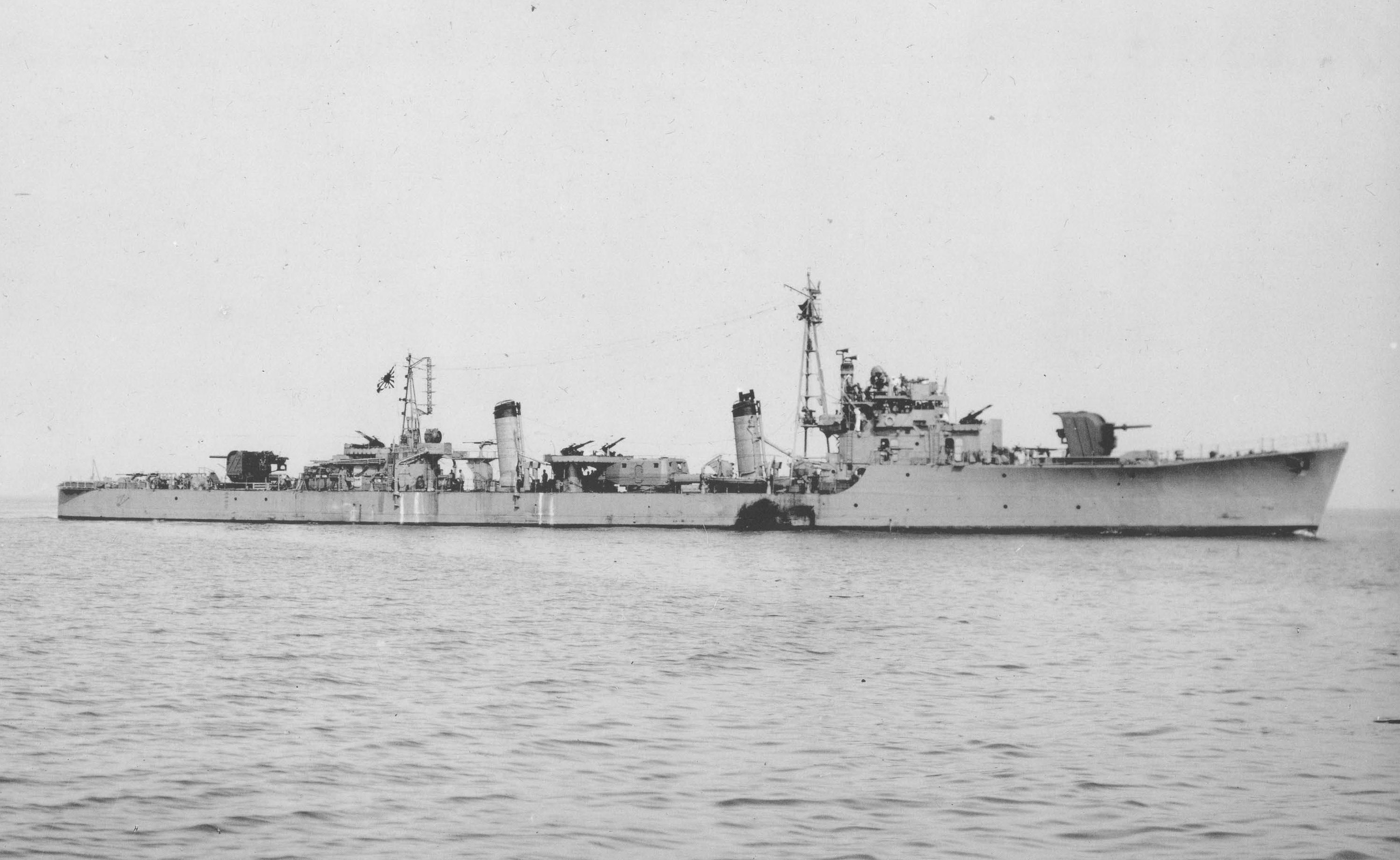 Imperial Japanese Navy destroyer Momi, the second Japanese warship to bear that name.